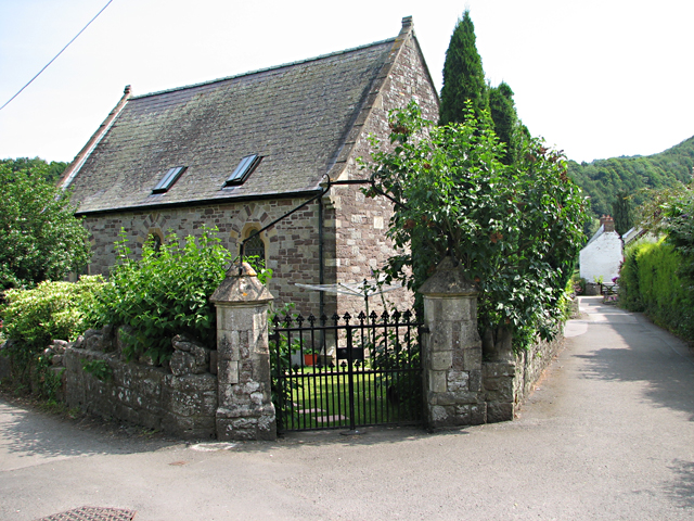 Tintern - Converted Church or Chapel? This house is alongside the footpath between Tintern Abbey and Abbey Mill. The clothes line in the garden does suggest that it is no longer a church or chapel.